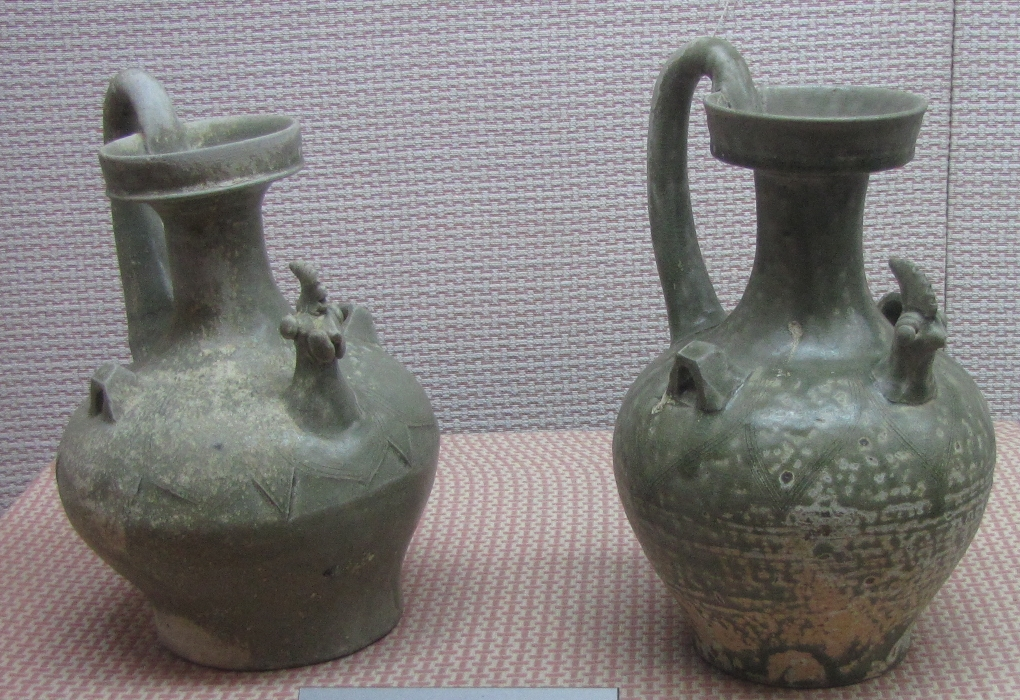 Celadon kettle with chicken head decoration of the Western Jin Dynasty (265-420), excavated in Fuzhou, China